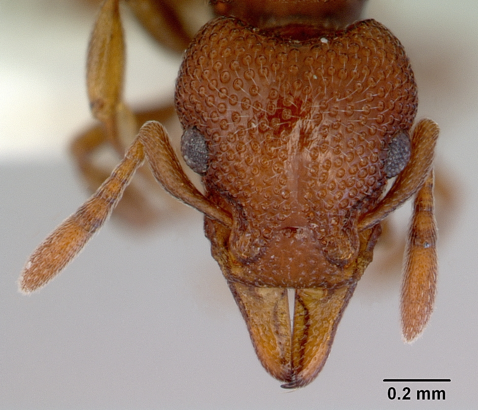 Head view of ant Mesostruma laevigata specimen casent0172475.